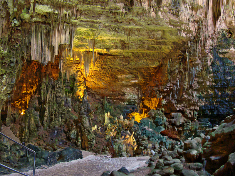 Castellana Caves, Castellana Grotte, Apulia, Italy.